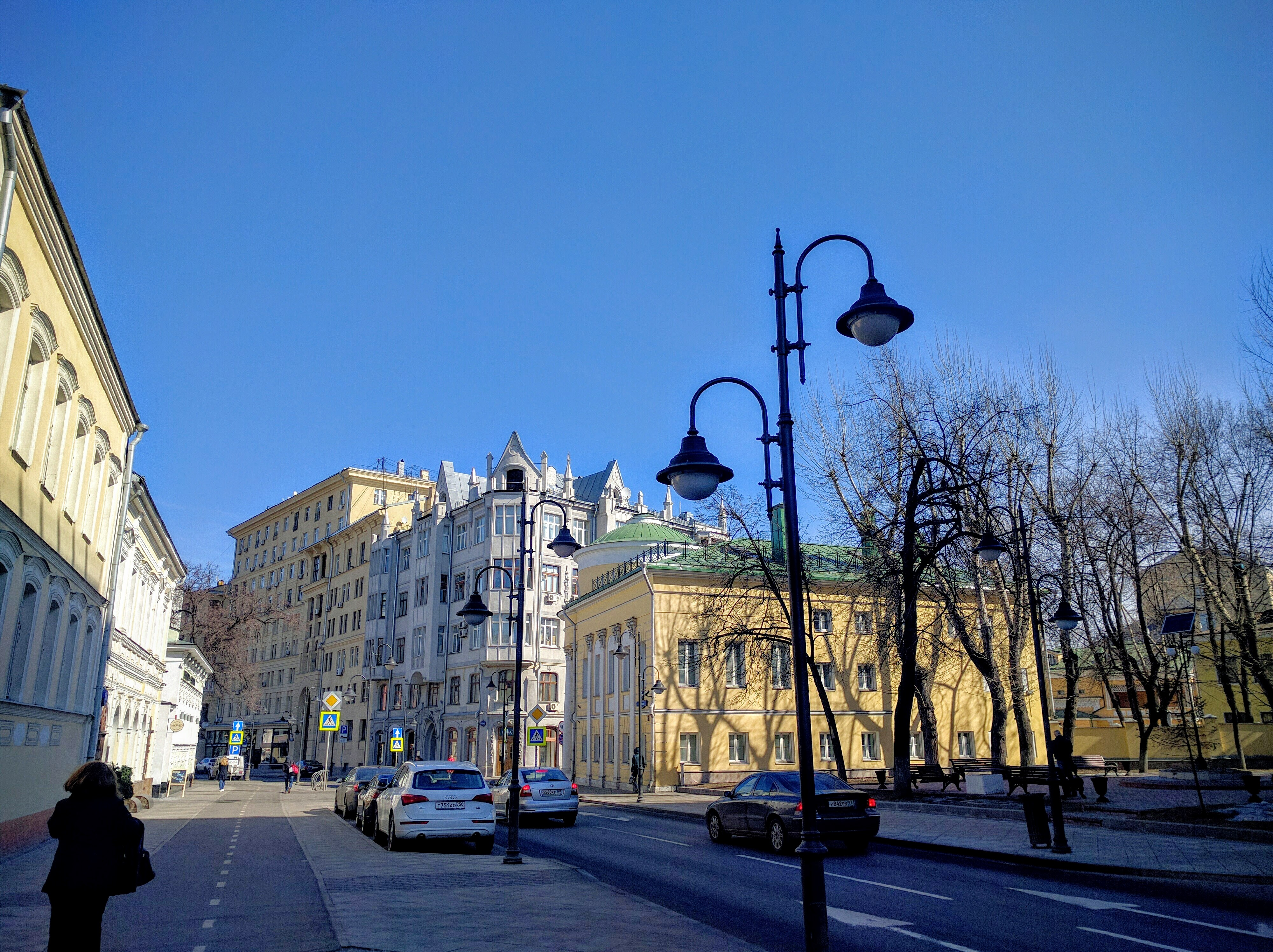 Pyatnitskaya street, Moscow